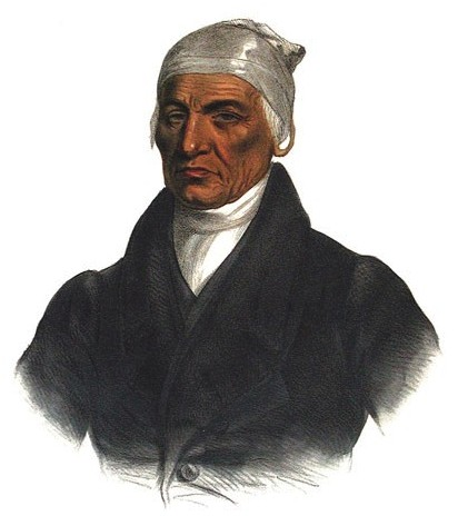 Ca-Ta-He-Cas-Sa, Black Hoof, principal chief of the Shawannes